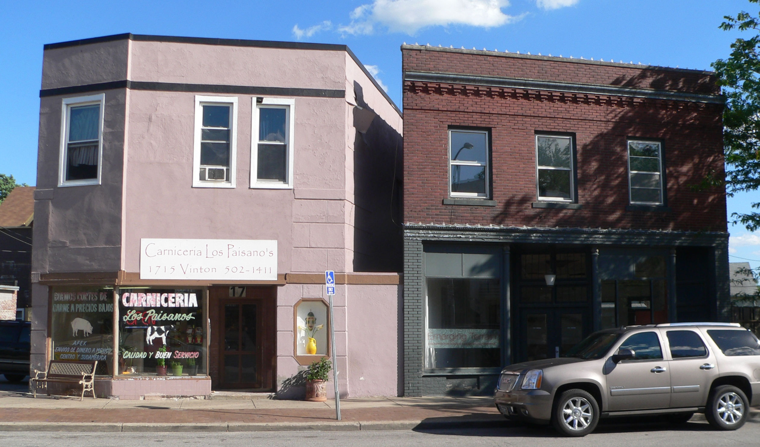 Buildings at 1715 Vinton Street (stuccoed building at left) and 1717 Vinton Street (brick building at right) in Omaha, Nebraska. Both buildings are part of the Vinton Street Commercial Historic District, listed in the National Register of Historic Places. 1717 is a contributing property in the district; 1715 is a non-contributing property.